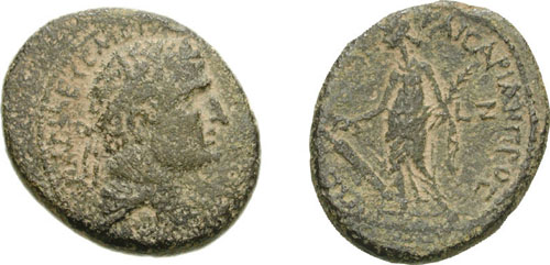 JUDAEA, Herodian Kings. Herod Agrippa I. 37-43 CE. Æ 22mm (9.02 g, 1h). Caesarea Maritima mint. Dated RY 7 (42/3 CE). BACILEYC MEGA[C AGRIPPAC FILOKAICAP], diademed head right / KAICAPIA H PPOC TW C[EBACTW LIMHNI], Tyche of Caesarea standing left, holding rudder in right hand and palm in left. Meshorer 122; A. Burnett, "The Coinage of King Agrippa I of Judaea and a New Coin of King Herod of Chalcis," Mélanges Bastien, -; RPC I 4985; Hendin 555; SNG Copenhagen -; BMC 20 corr. (Caesarea Samariae; Tyche holding cornucopiae). VF, black-green patina with sandy overtones.